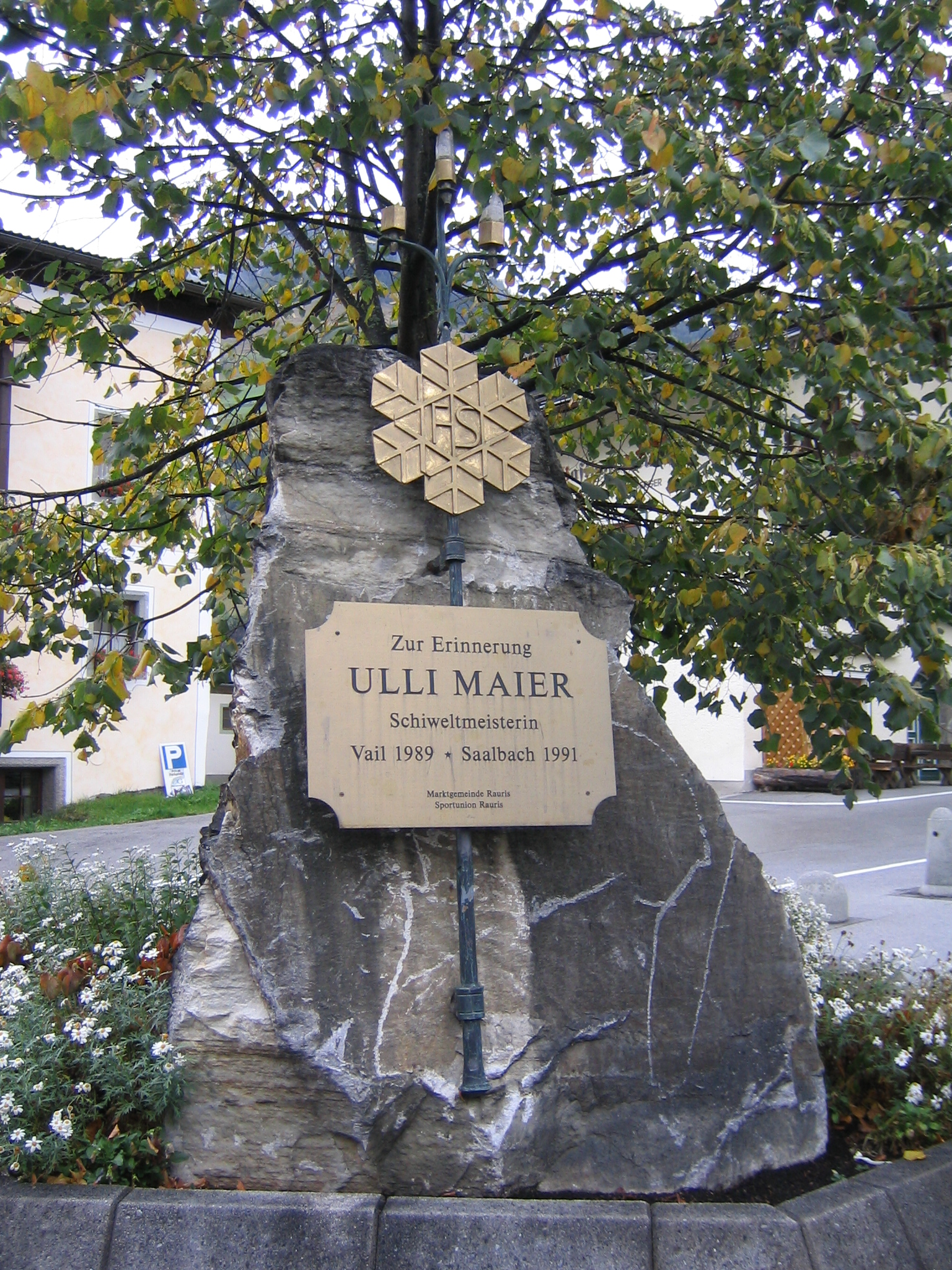 Memorial stone of Ulrike Maier in Rauris, Salzburg (state)